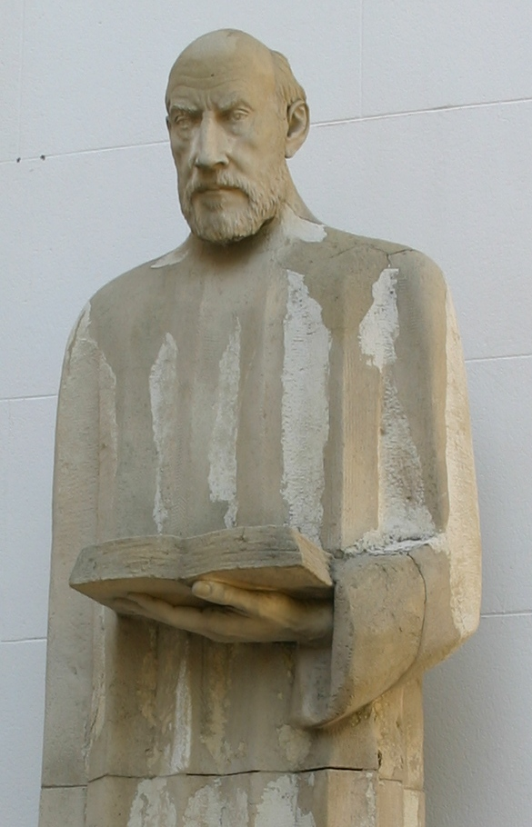 This very tall marble statue of Santiago Ramon y Cajal can be seen in the "Cajal Garden" of the Ilustre Colegio Oficial de Médicos de Madrid in Madrid.